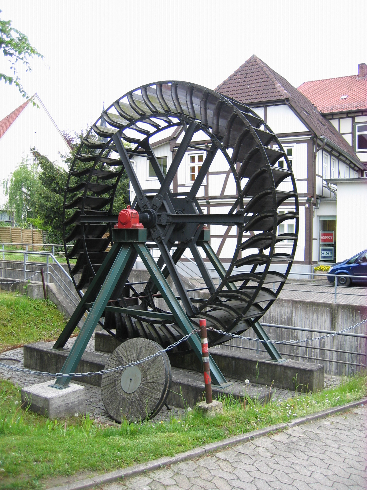 in Vlotho, District of Herford, North Rhine-Westphalia, Germany.